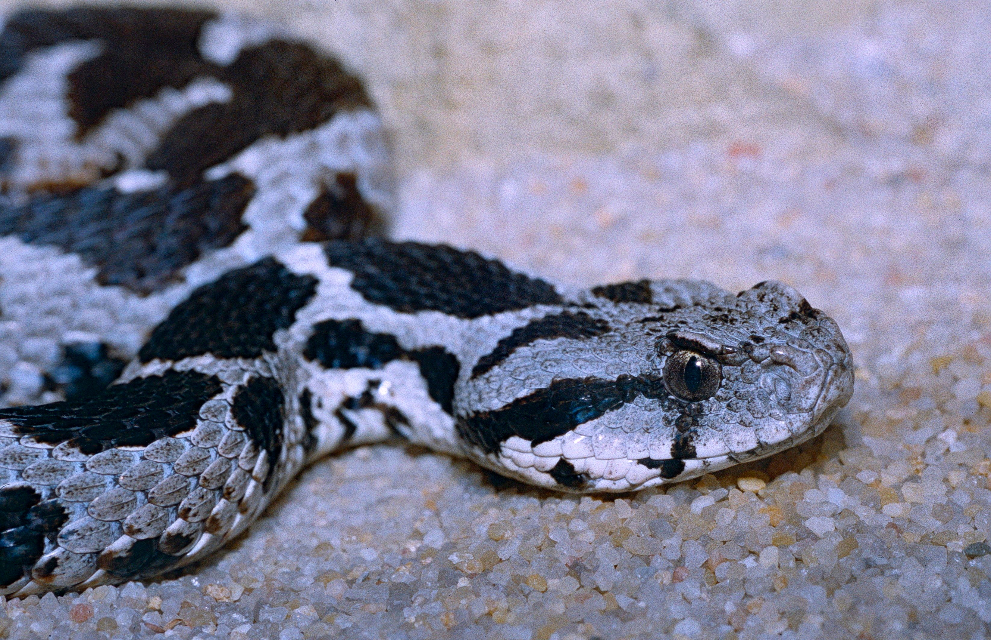 Zoo, Barcelona, Catalonia, SPAIN Scanned Slide from 1996